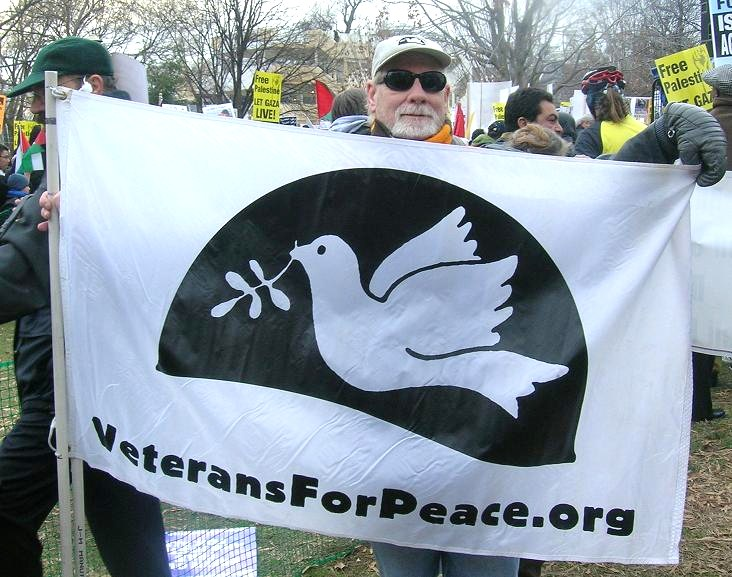 January 10, 2009 Veterans for Peace members protest against Israel invasion of Gaza at Lafayette Park, between White House and U.S. President-elect Barack Obama's temporary hotel residence.